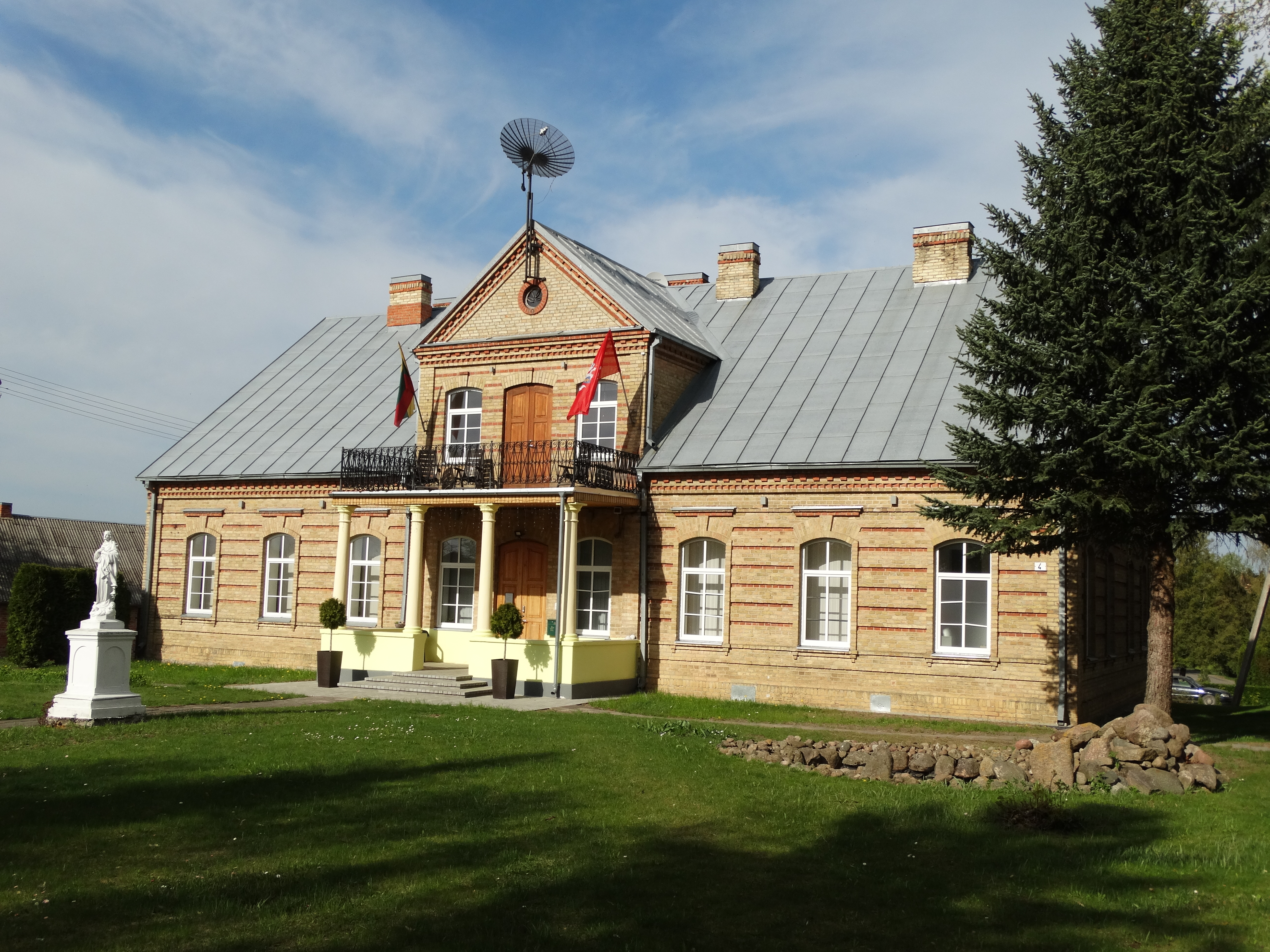 Pašvitinys, clergy house, Pakruojis District, Lithuania